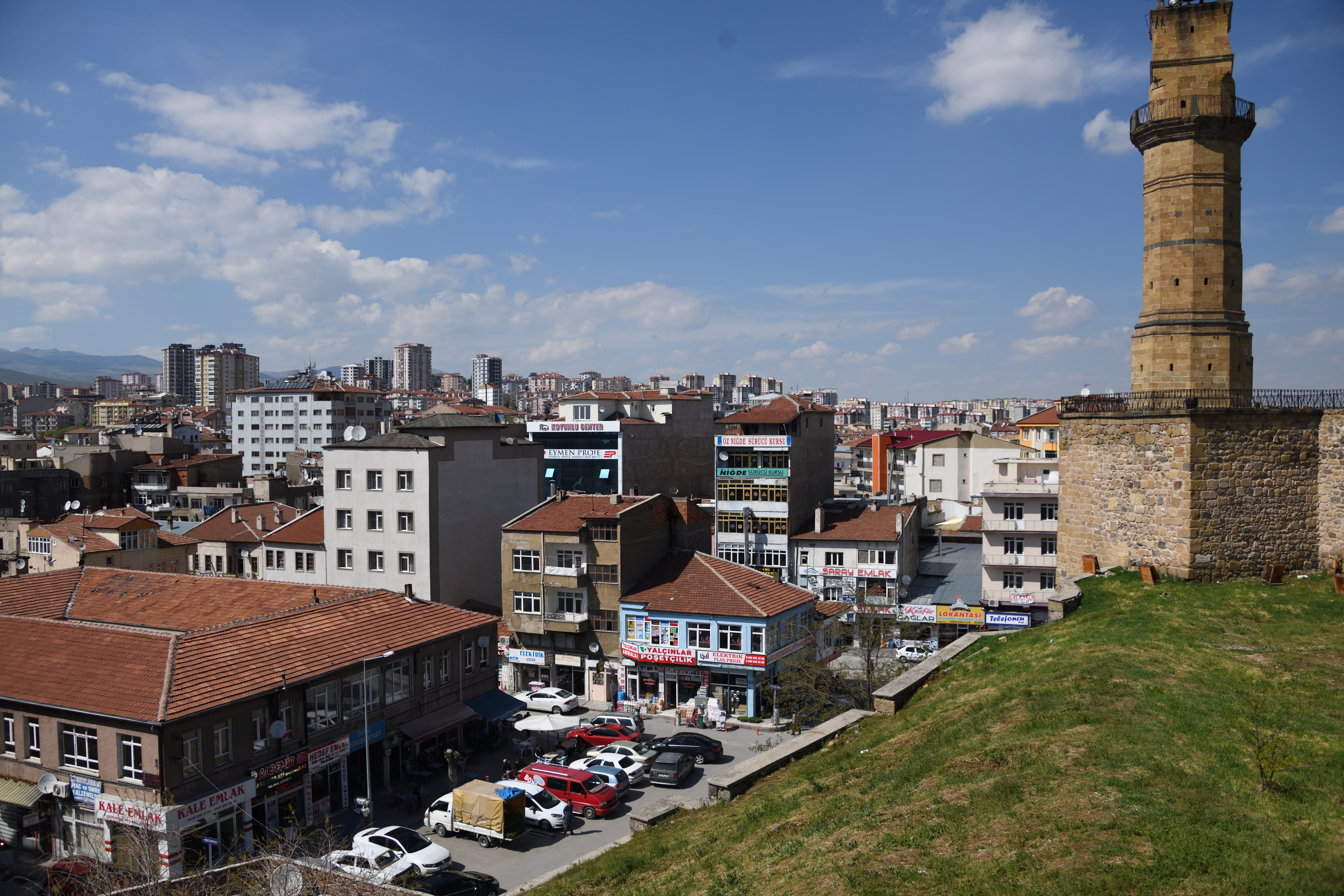 Many cities will have a kale, a fortress on a hill. There is no certainty about its construction, but the 10th century, in Byzantine times, is most probable. During the Anatolian Seljuk time of Kılıçarslan II (1155-1192), Rüknettin Suleyman Şah II (1196-1204) and Alâeddin Keykubat I (12201237) it attained its principle form. Though the defences seem to have gone, the kale is still a fine place, partly turned into a park, with two mosques, one, the Alâeddin, and the Rahmaniye. In the Republic the castle has been used as a prison, later it was overhauled and landscaped. he clock tower dates from 1901-2. It was constructed at the southwest corner of the inner castle by half knocking down the tower there and then filling it. There are four sections to the tower that outwardly resembles a minaret. Clock towers did not appear in the Ottoman empire until the 19th century, the first examples in Anatolia are even from the early 20th century, accelerated by an edict of Sultan Abdulhamit in the 25th year of his accession. Only 50 of the then current style exist.